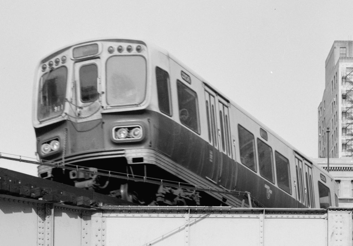 2000-series car of the ‘L’, 1971. Chicago, Illinois, United States.